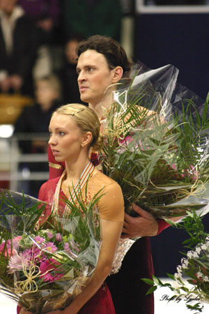 pairs